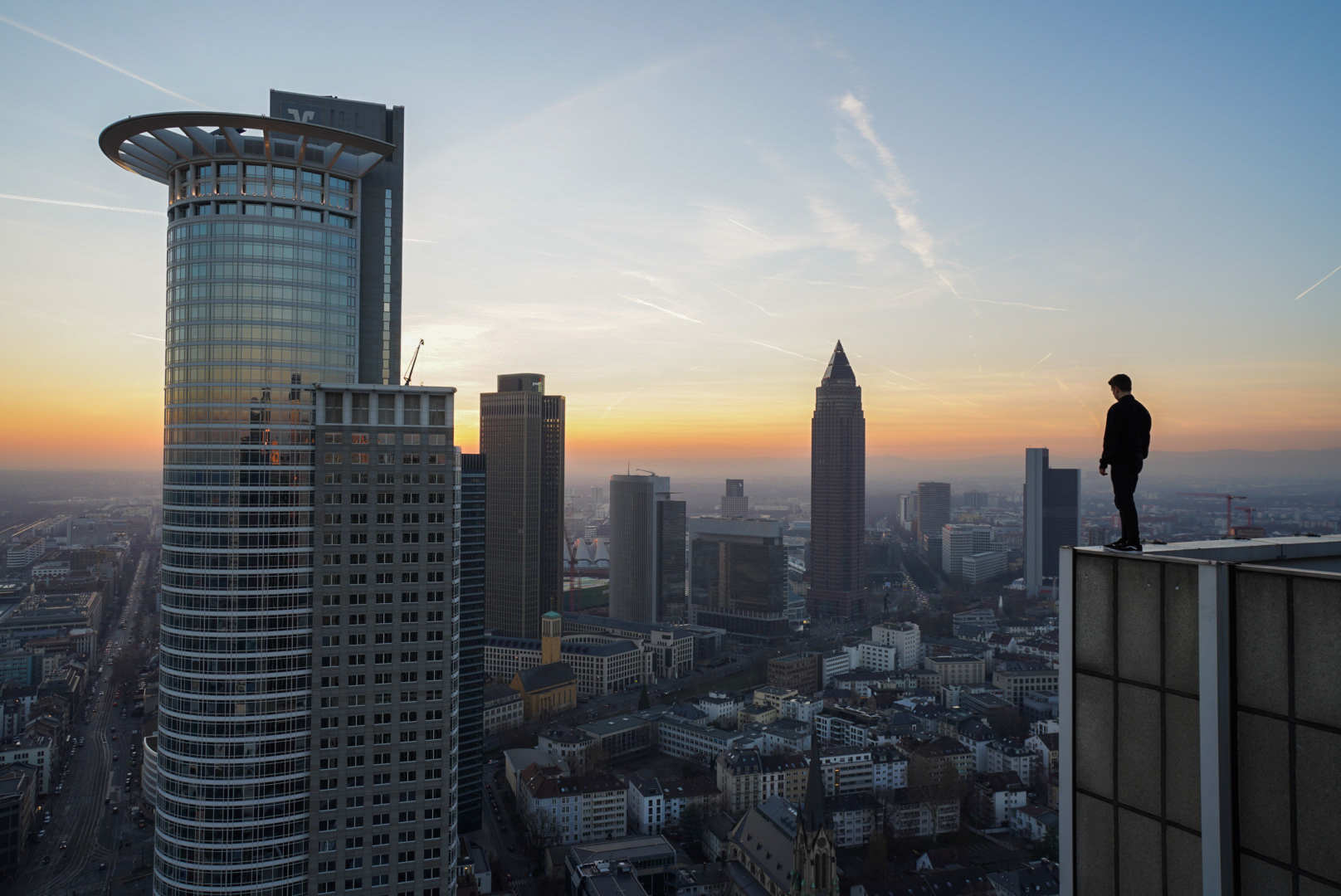 Rooftopper stands on the edge of a skycraper in Frankfurt, Germany.